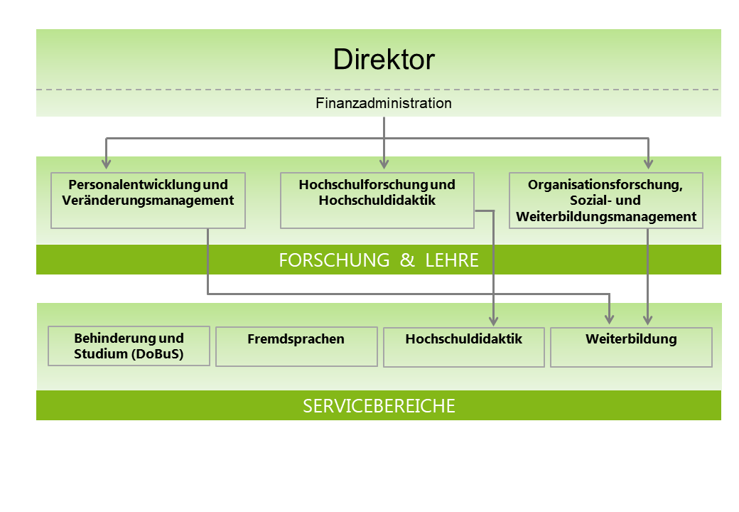 Organisationsstruktur des zhb.